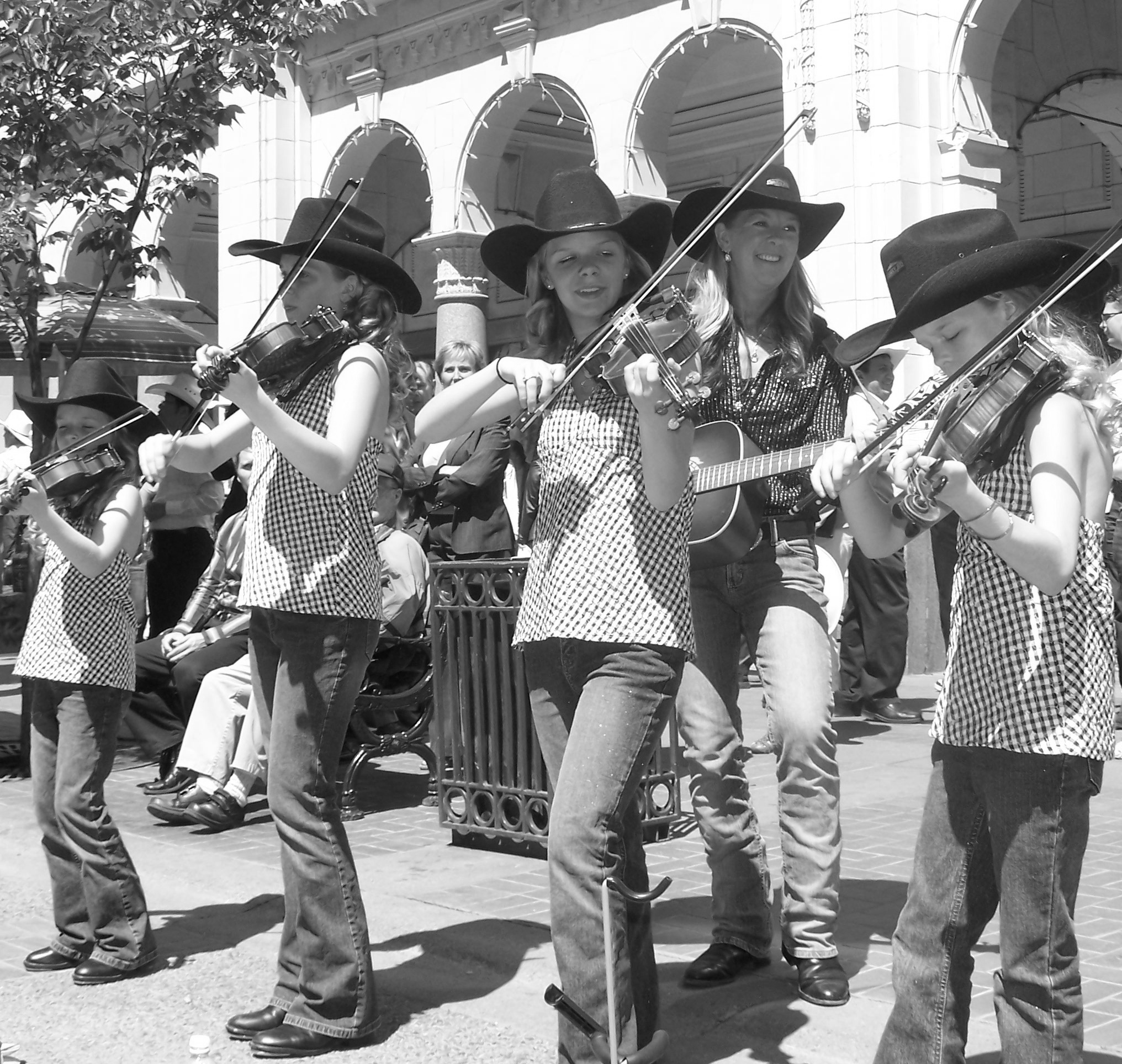 The Keister Family Fiddlers performing on Stephen Avenue Mall outside The Bay, in downtown Calgary, Alberta, Canada on June 18, 2009. Image has been cropped and converted into black and white.